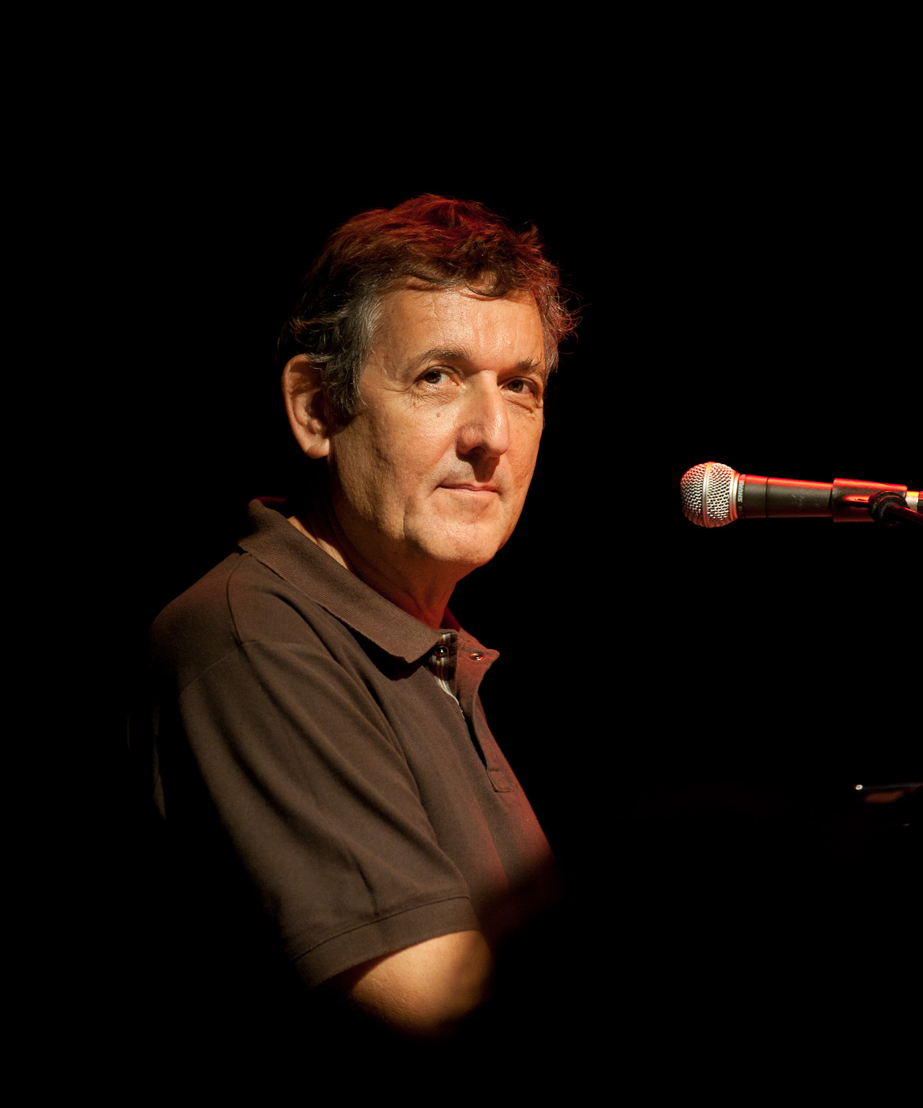 Yoni Rechter in a concert in Zappa Herzeliya (Sep 25, 2010).